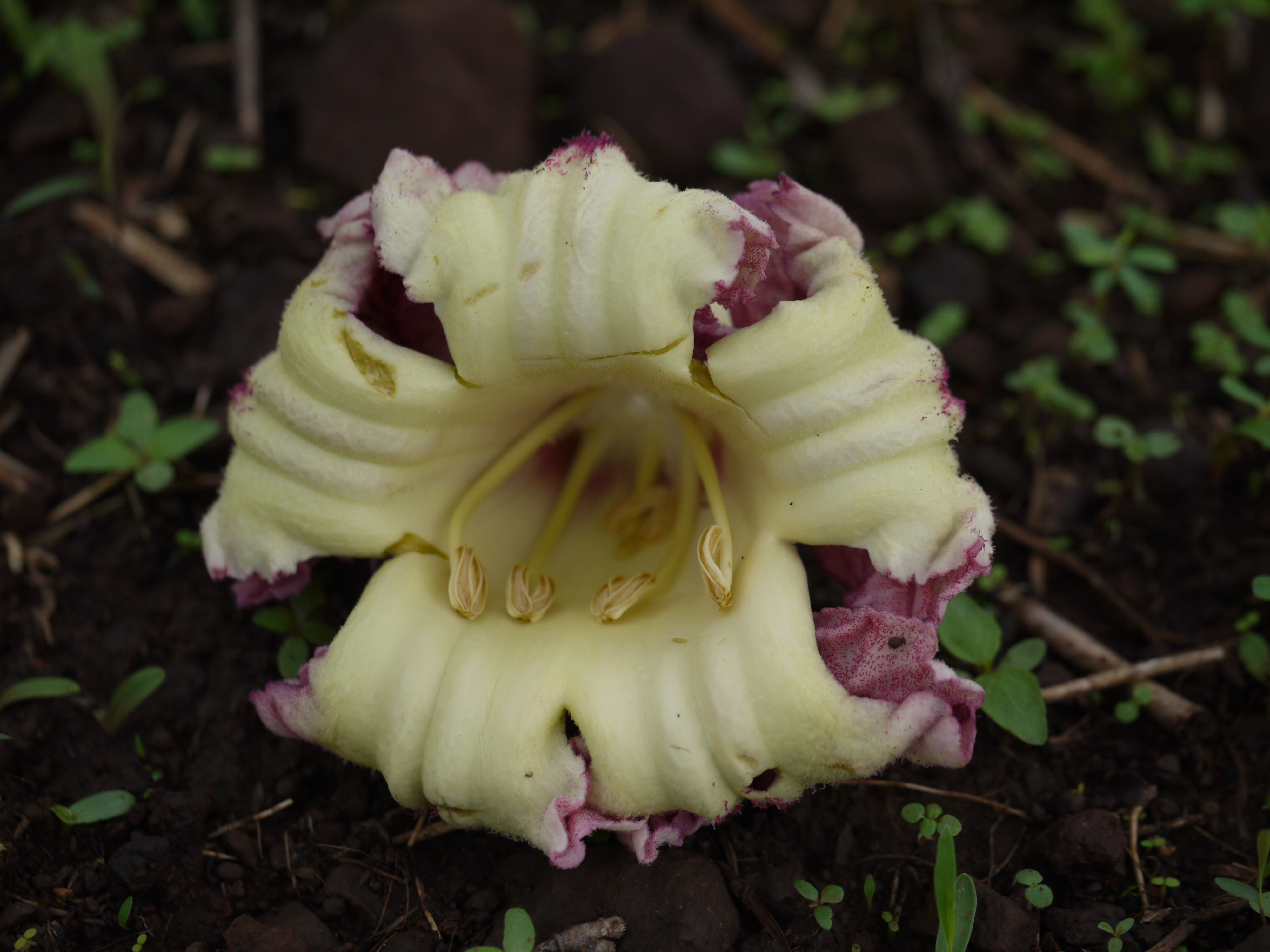 Bignoniaceae (bignonia, or jacaranda family) » Oroxylum indicum or-oh-ZY-lum -- from the Greek oros (mountain) and xylon (wood) IN-dih-kum or in-DEE-kum -- of or from India commonly known as: broken bones plant, Indian calosanthes, Indian trumpet flower, midnight horror, oroxylum, tree of Damocles • Bengali: সোনা sona • Hindi: भूत वृक्ष bhut-vriksha, दीर्घवृन्त dirghavrinta, कुटन्नट kutannat, मण्डूक manduk (the flower), पत्रोर्ण patrorna, पूतिवृक्ष putivriksha, शल्लक shallaka, शूरण shuran, सोन or शोण son, वटुक vatuk • Kannada: ತಟ್ಟುನ tattuna • Konkani: davamadak • Nepalese: टटेलों tatelo • Malayalam: പലകപയ്യാനി palaqapayyani, വാശ്പ്പാതിരി vashrppathiri, വെള്ളപ്പാതിരി vellappathiri • Marathi: टायिटू tayitu, टेटु tetu • Sanskrit: अरलु aralu, श्योनक shyonaka • Tamil: சொரிகொன்றை cori-konnai, பாலையுடைச்சி palai-y-utaicci, பூதபுஷ்பம் puta-puspam (the flower) • Telugu: మండూకపర్ణము manduka-parnamu, పంపెన pampena, శూకనాసము suka-nasamu, తుందిలము tundilamu Native to: s China, Indian subcontinent, Indo-China, Malesia References: Flowers of India • NPGS / GRIN • eFlora • Top Tropicals